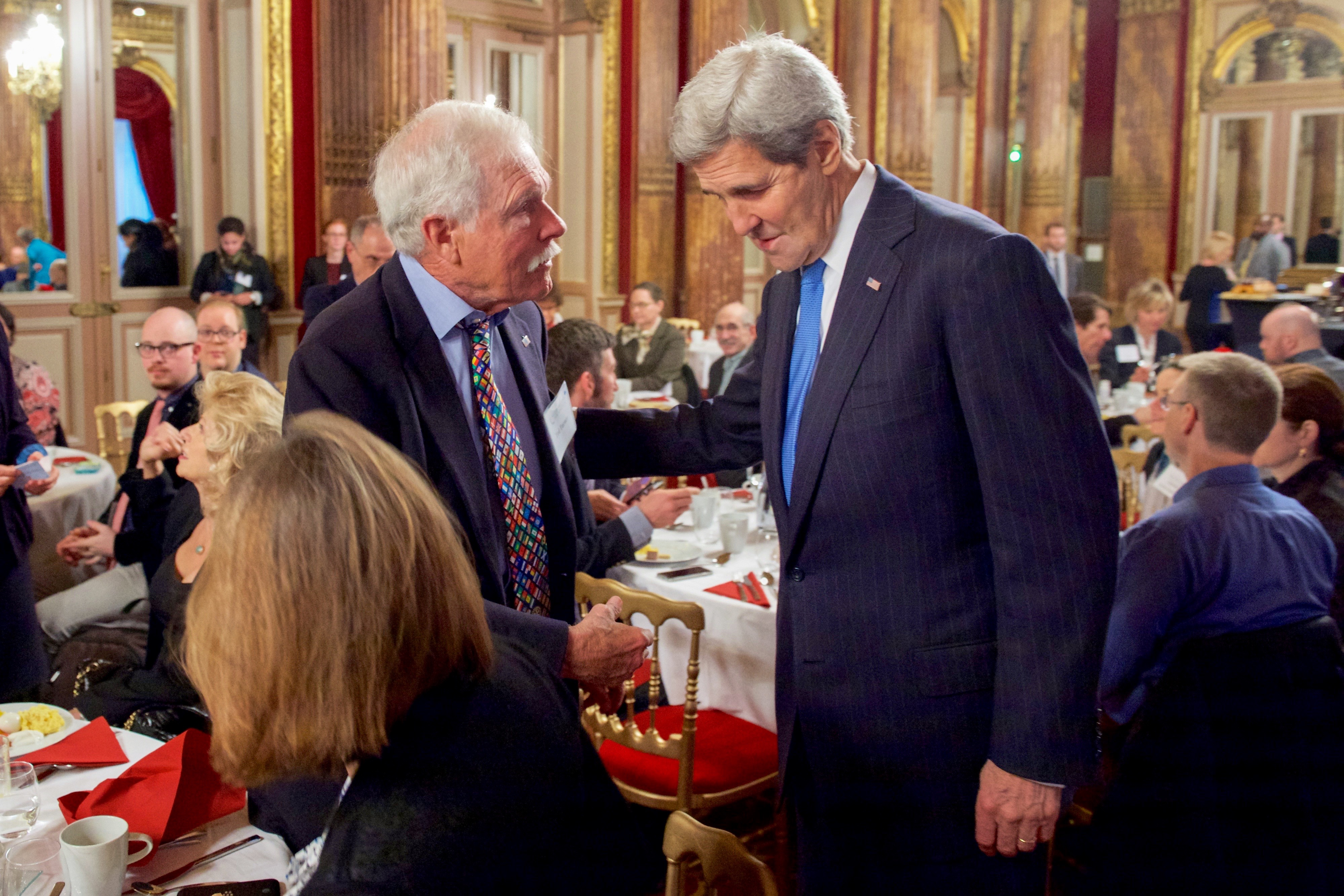 U.S. Secretary of State John Kerry greets businessman and environmental activist Ted Turner on December 8, 2015, at the Westin Hotel in Paris, France, before addressing a United Nations Foundation breakfast focused on the ocean amid the COP21 climate change summit. [State Department photo/ Public Domain]